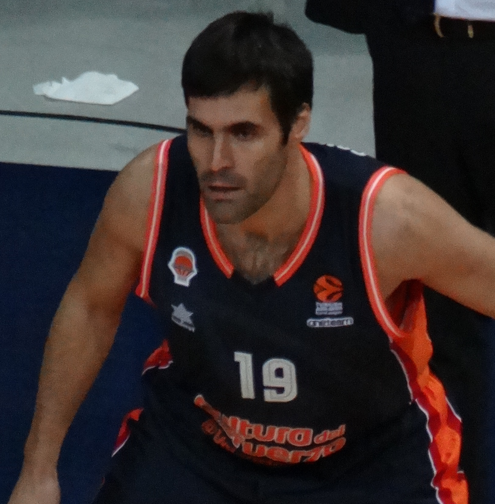 Fernando San Emeterio 19 Valencia Basket 20171102